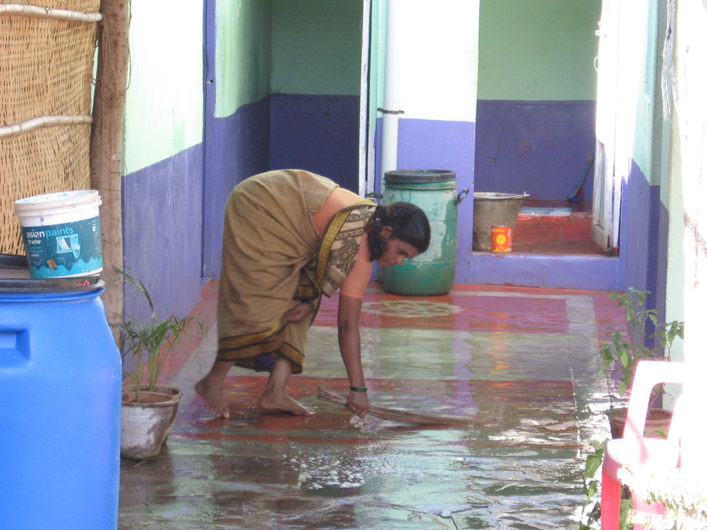 An Indian woman housekeeps work.